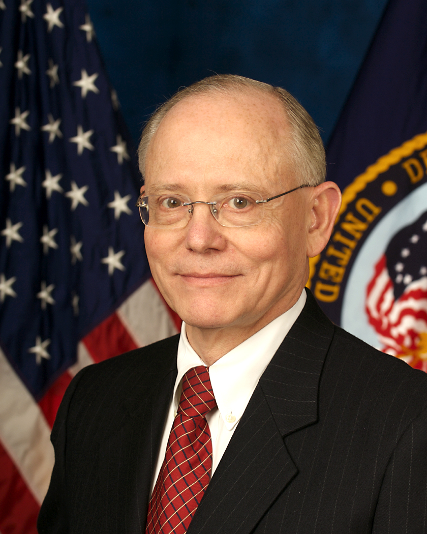 Photo of James Peake, Secretary of Veterans Affairs, 2007